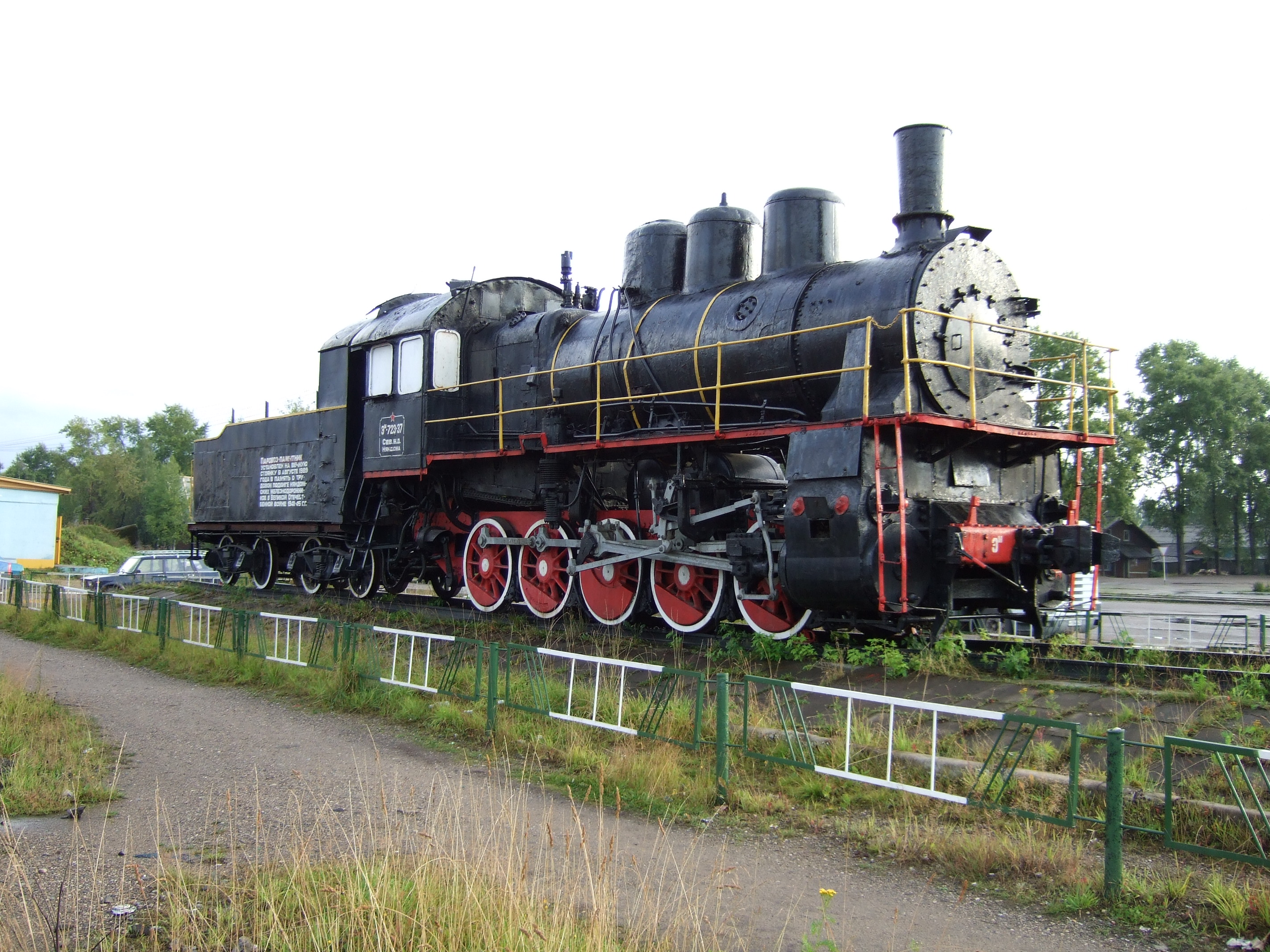 Steam locomotive at the russian city Nyandoma.